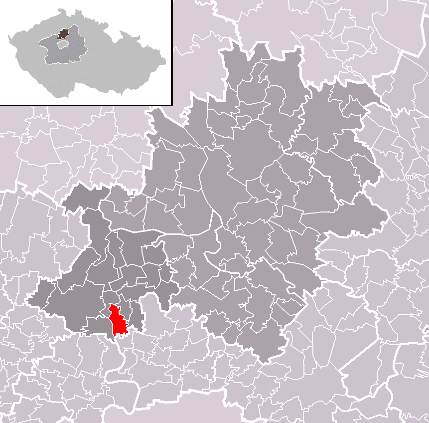 Location of Zlončice municipality within Mělník District and administrative area of Kralupy nad Vltavou as a Municipality with Extended Competence.